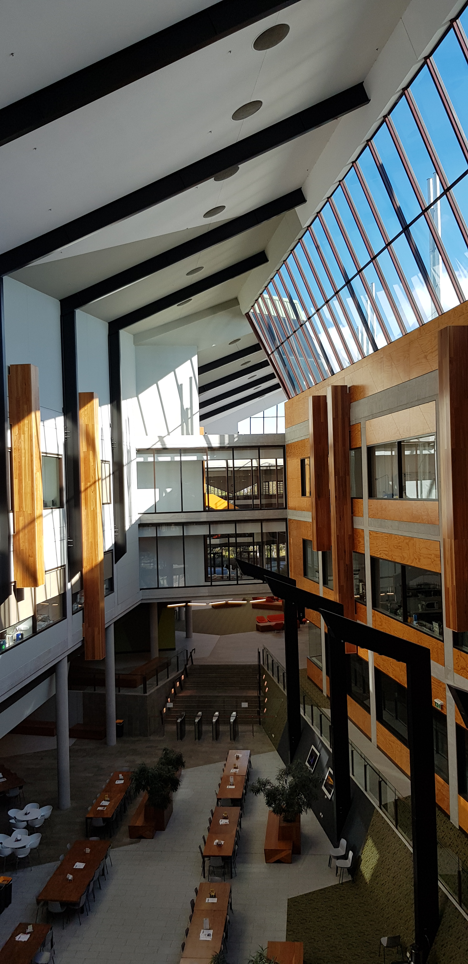 La Trobe University, Melbourne Agribio building. Interior photograph, from second floor tearoom